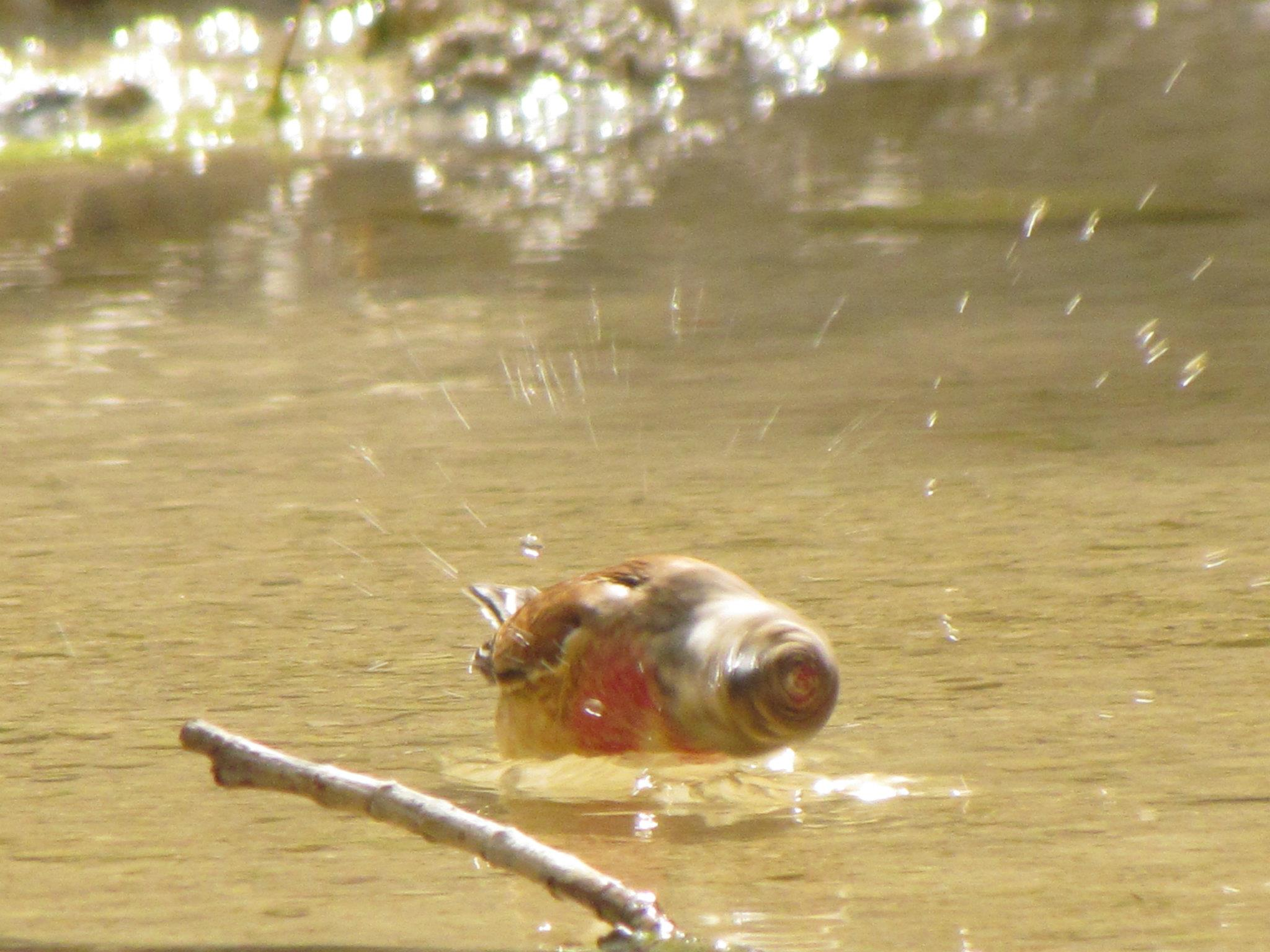 Bird bathing